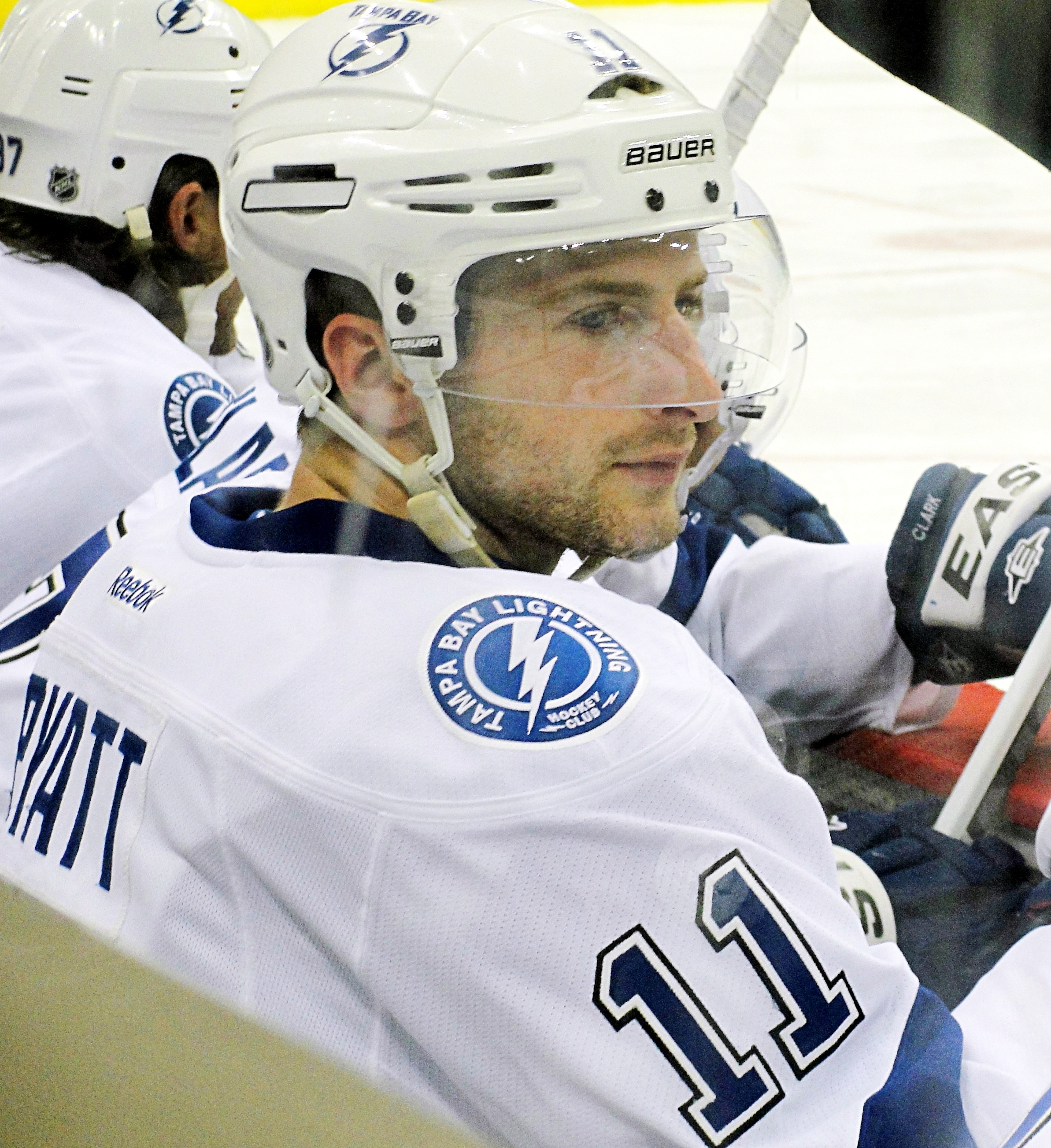 Tampa Bay Lightning forward Tom Pyatt during a February 25, 2012 game against the Pittsburgh Penguins at Consol Energy Center in Pittsburgh, PA.